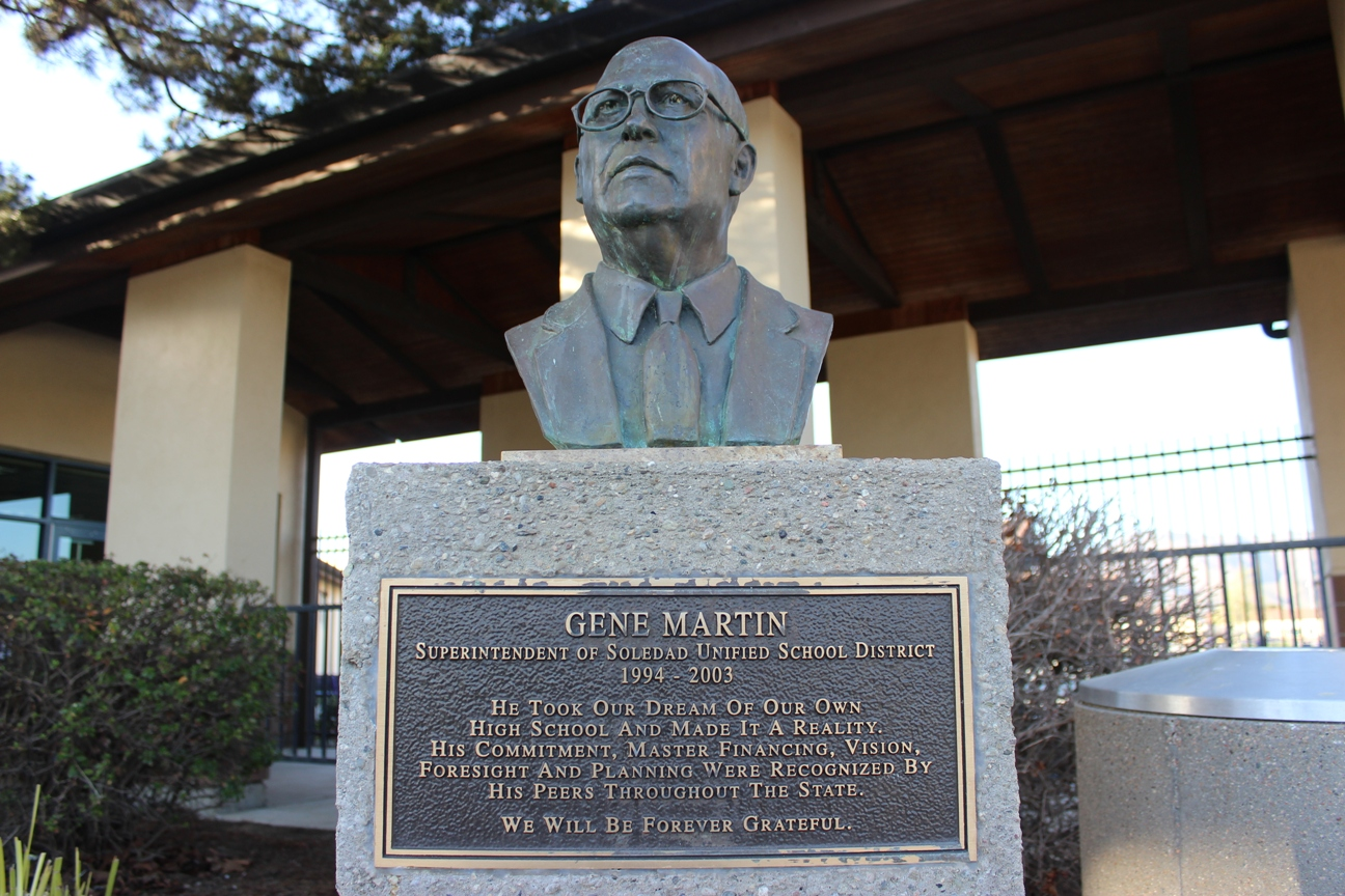 Gene Martin was one of the leaders behind the creation of Soledad, California's Soledad High School